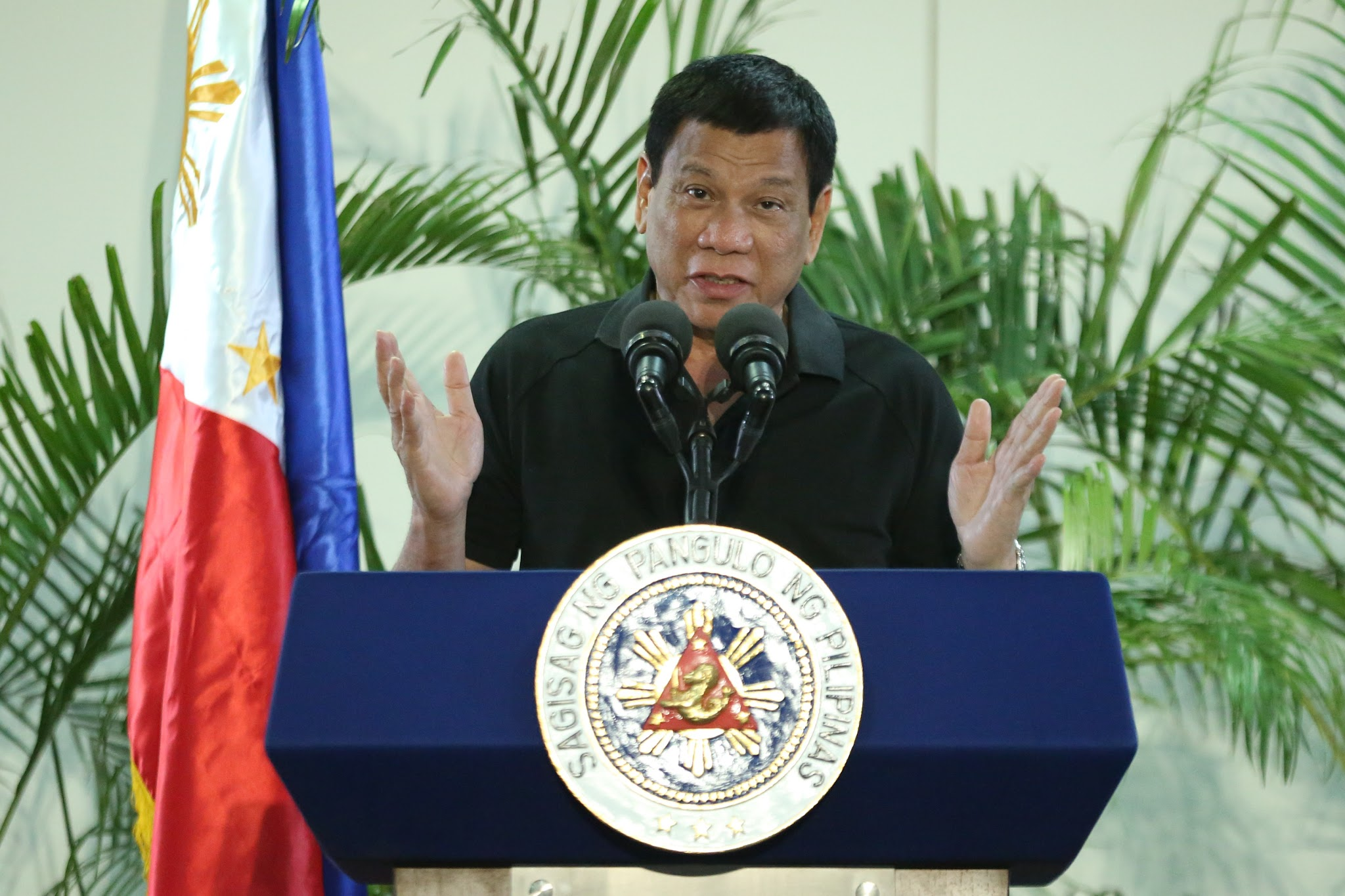 President Rodrigo Duterte warns government officials engaged in corrupt practices in a news conference at the Francisco Bangoy International Airport in Davao City on September 30. KARL NORMAN ALONZO/PPD